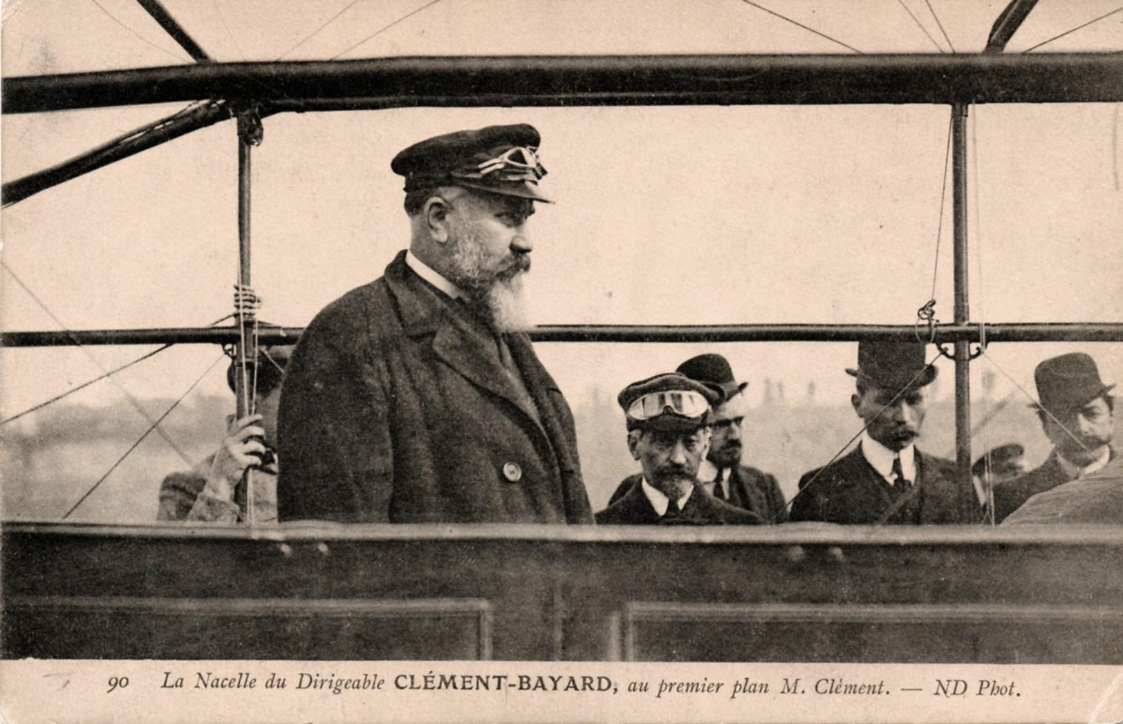 Adolphe Clément-Bayard in 1908 on its first airship - vintage postcard - personal collection